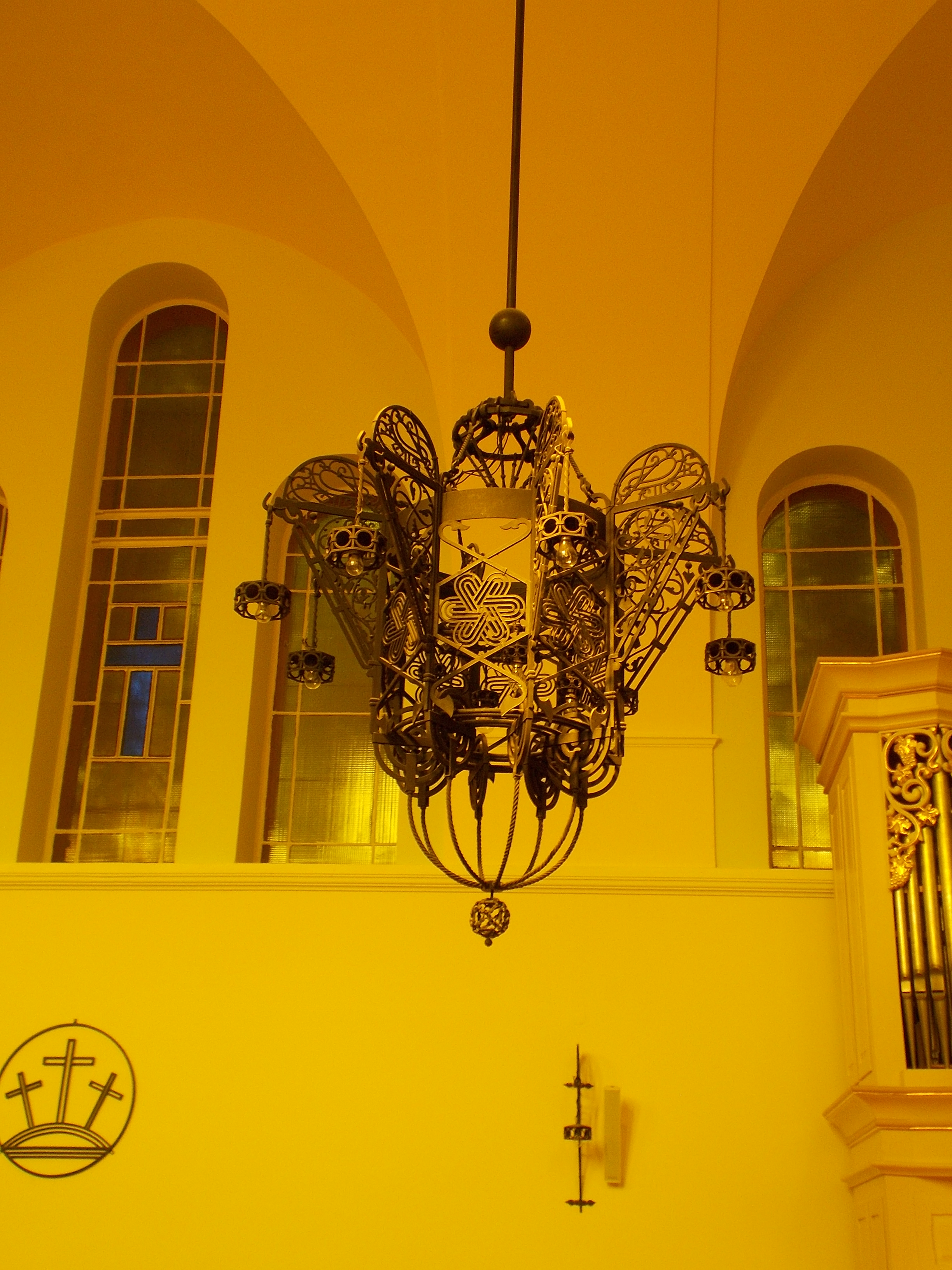 Evangelical church. Listed ID -1482. Neo-Gothic style. It was designed by Otto Sztehlo architect. The church was consecrated in 1896. - Szabadság Sq., Cegléd, Pest County, Hungary